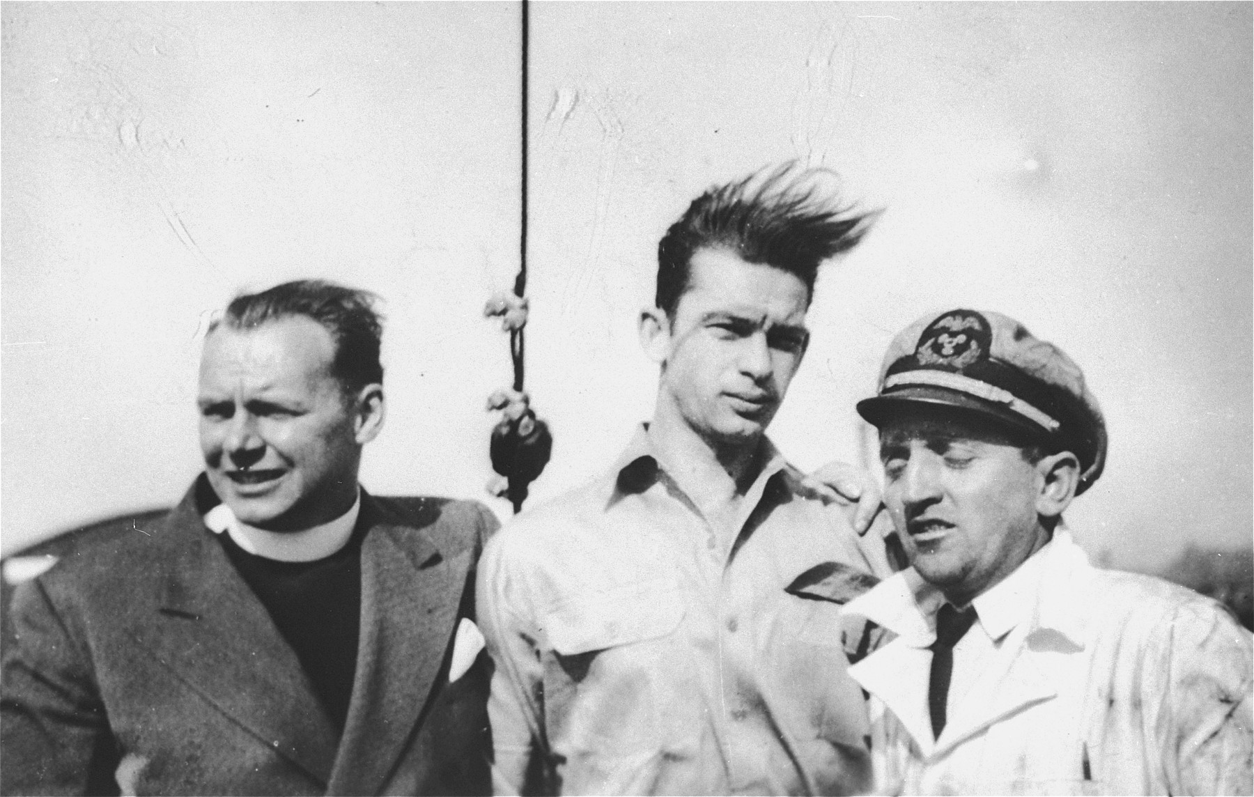 John Stanley Grauel, Yaakov Oron (Garbash) and Aryeh Kolomeitzev ( later Kole) pose on the deck of the President Warfield (later the Exodus 1947) before its departure for Europe